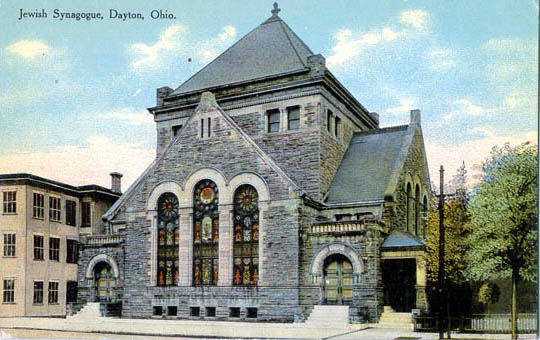 Synagogue in Dayton, Ohio